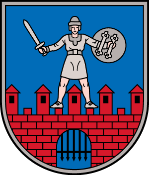 Coat of arms of Cēsis Municipality, Latvia.